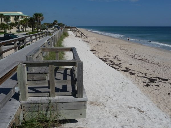 Conn Beach in Vero Beach, FL